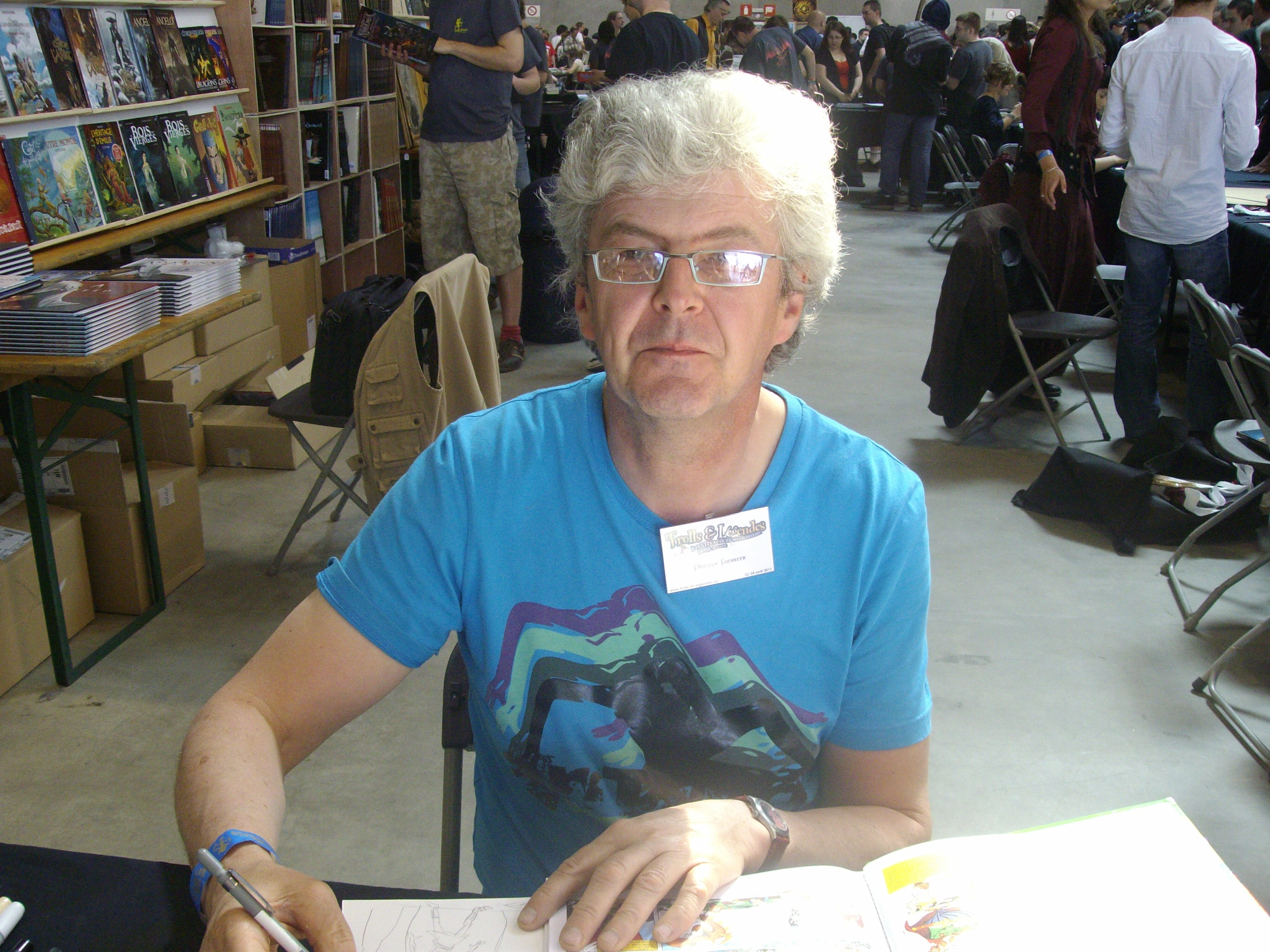 Philippe Foerster